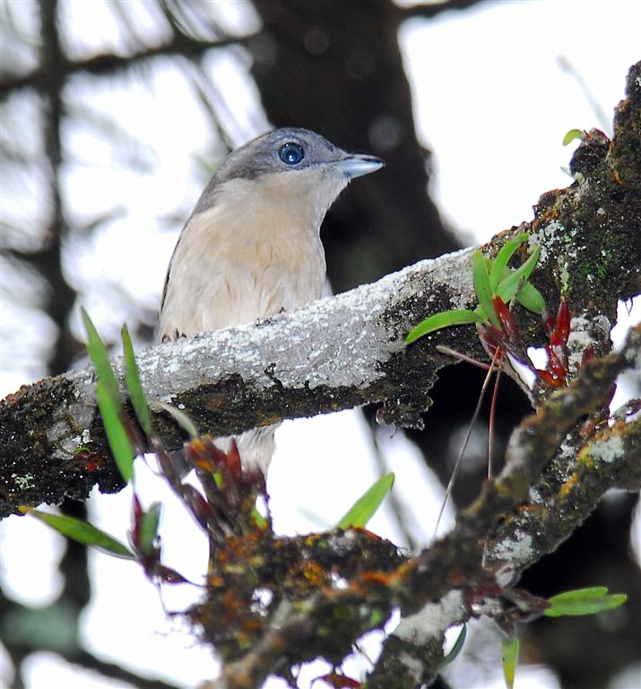 female White-browed Shrike-babbler (Pteruthius flaviscapis). Initially mistakenly identified as a Silver-breasted Broadbill (Serilophus lunatus).